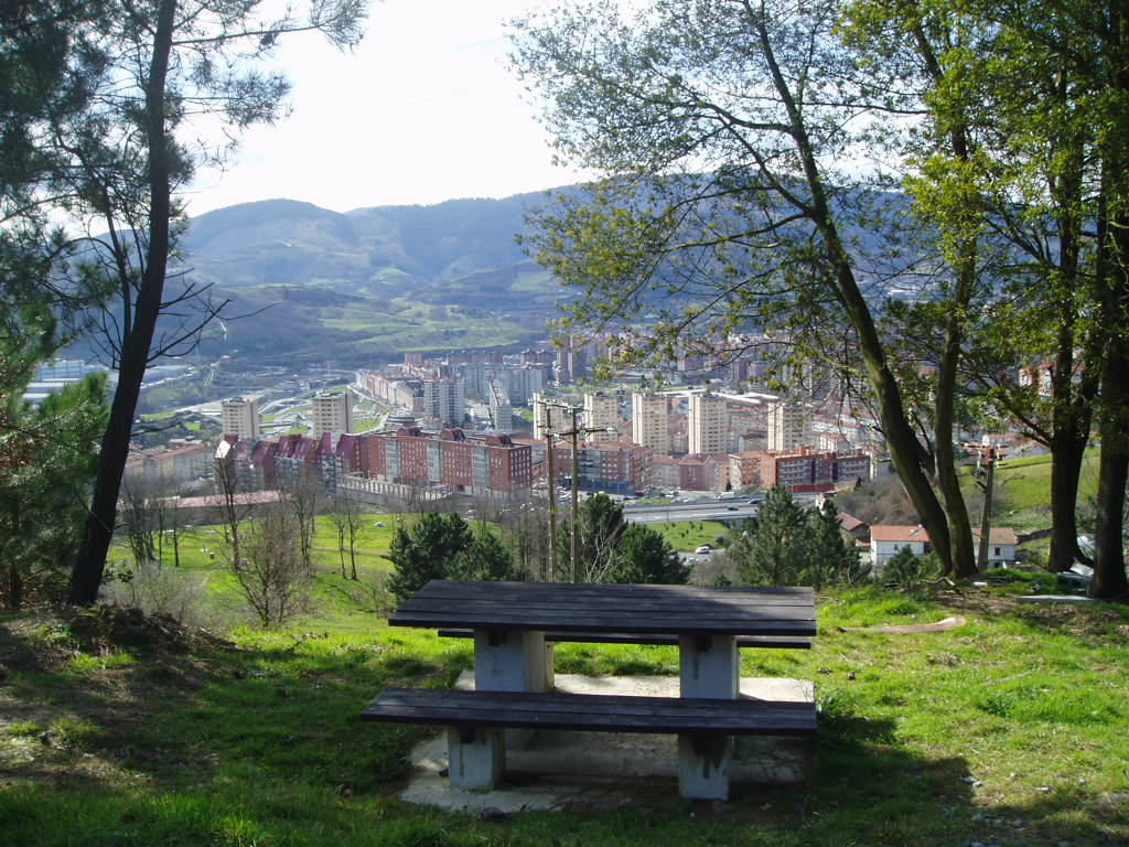 View of Otxarkoaga district (Bilbao) from a picnic area.